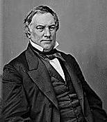 John Littleton Dawson, US Representative from Pennsylvania